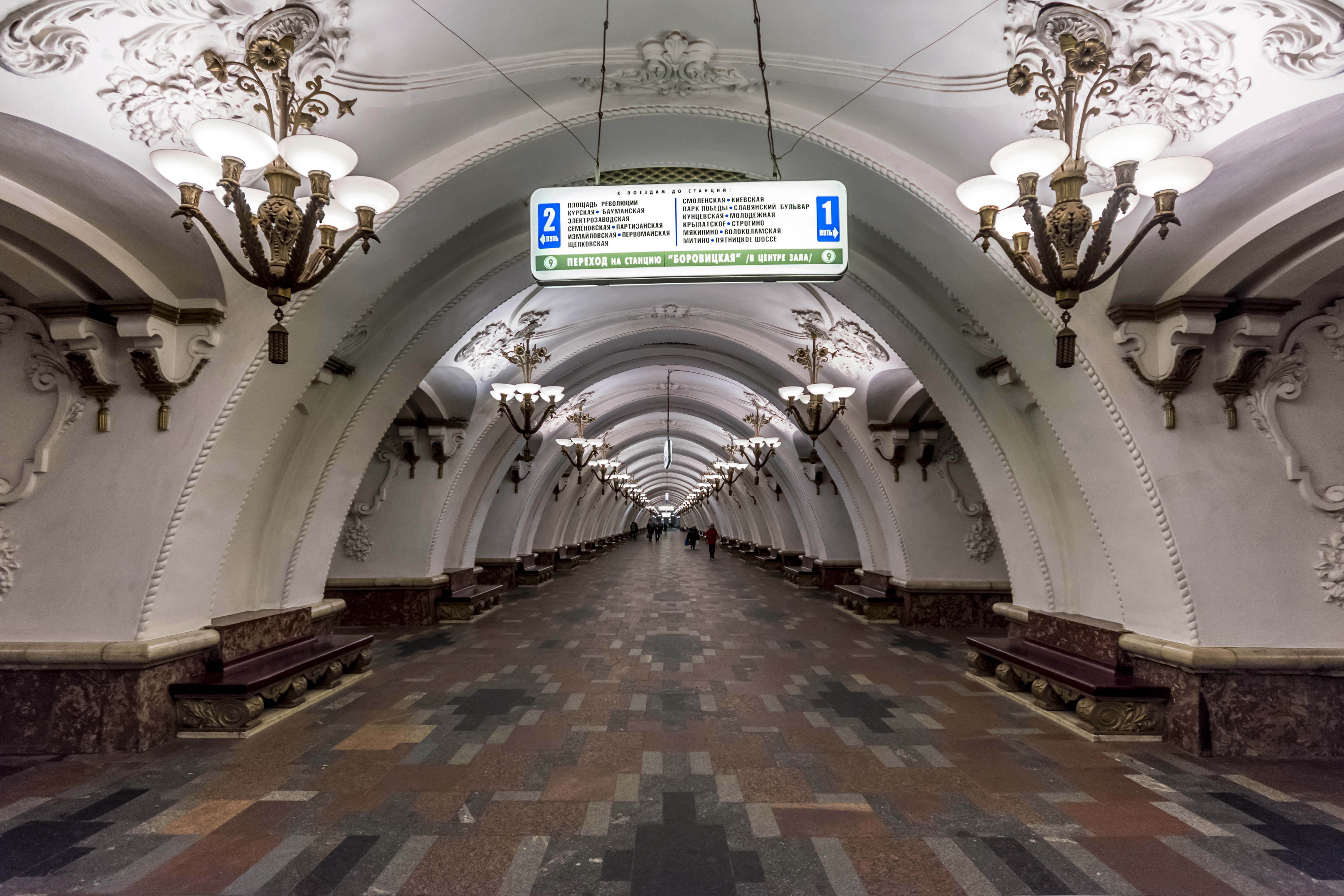 Arbatskaya Station of Moscow Subway